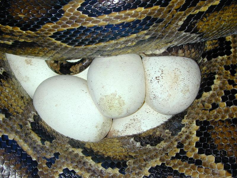 female Burmese Python (Python bivittatus) wrapped around a clutch of 21 ferilized eggs. Picture donated by